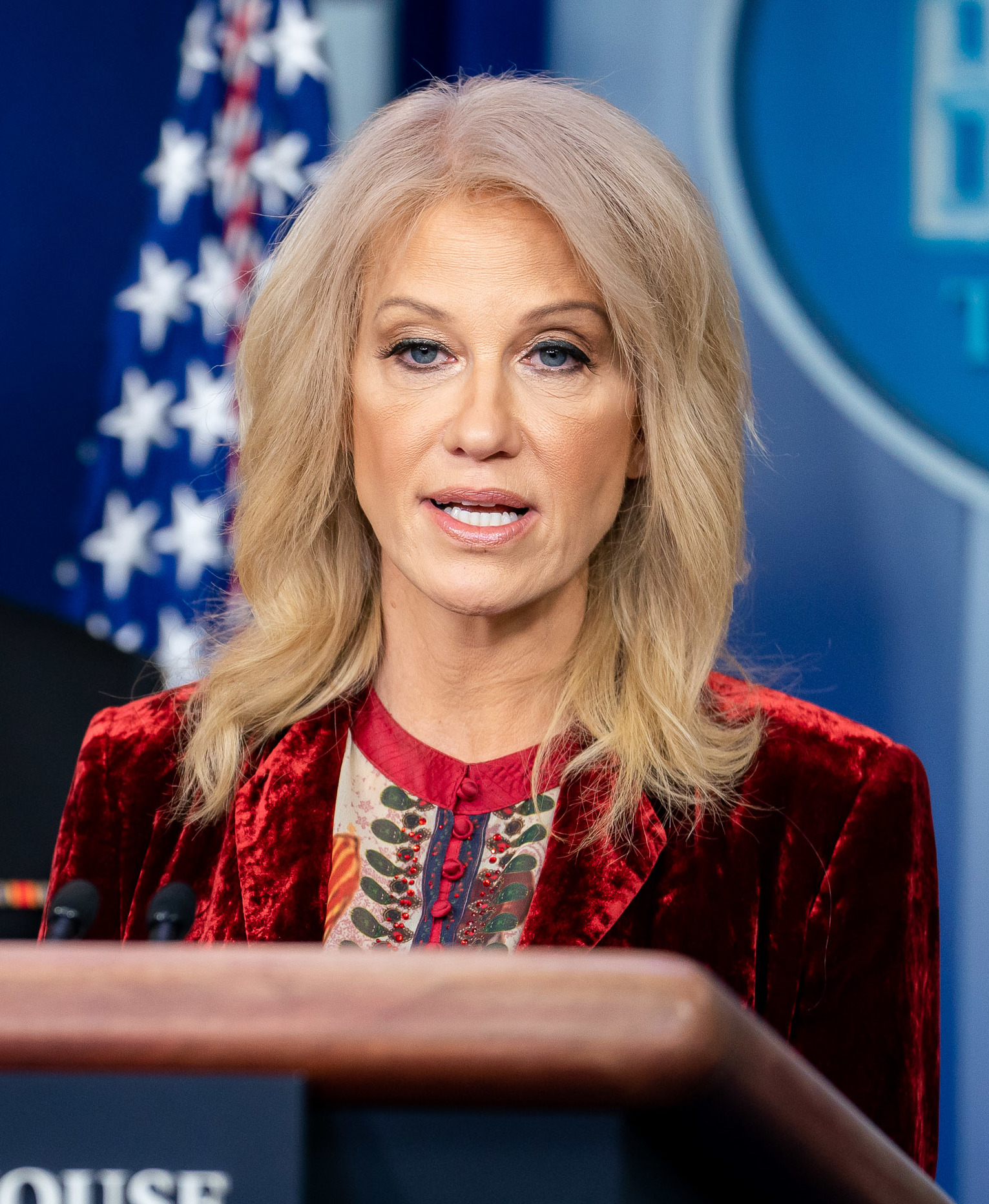 Counselor to the President Kellyanne Conway, joined by Assistant Secretary of Public Health Adm. Brett Giroir, left, and Office of National Drug Control Policy Director Jim Carroll, participates in press briefing Thursday, Jan. 30, 2020, in the James S. Brady Press Briefing Room of the White House. (Official White House Photo by Tia Dufour)